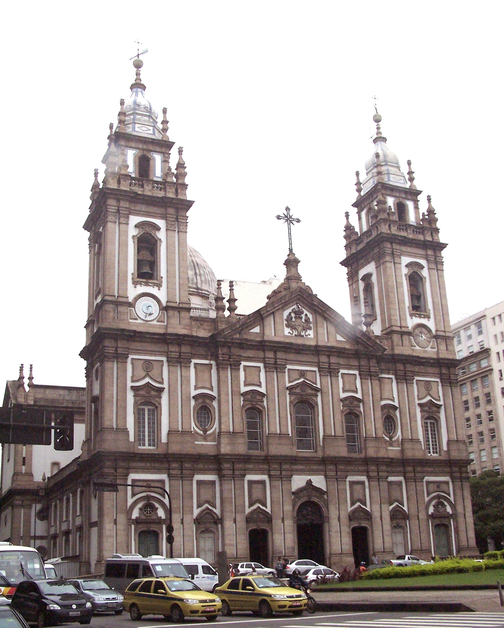 Façade of the Candelária Church, Rio de Janeiro, Brazil.